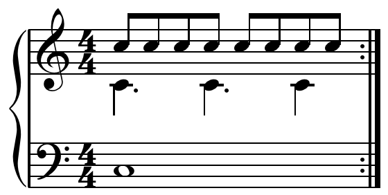 Additive rhythm. Created by Hyacinth (talk) using Sibelius 5. Category:Music images Category:Monochrome images